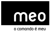 meo logo